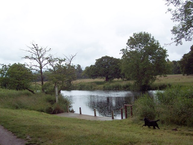 River Stour, Wimborne Minster Taken on a very rainy Sunday afternoon.